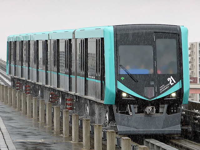 Toei 320 series EMU set 21 on the Nippori-Toneri Liner between Ogi-Ohashi and Adachi-Odai Stations